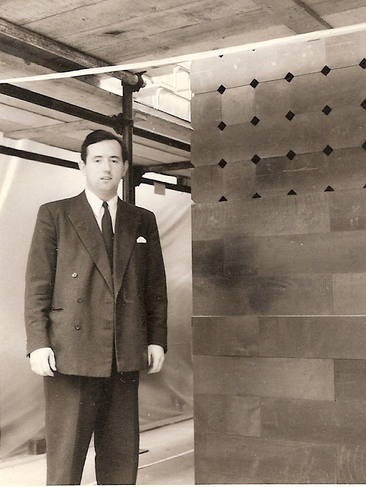 The belgian nuclear physicist Guy Tavernier next to the first belgian uranium-graphite Exponential Pile he built and in which he realised the first belgian nuclear chain reaction the 1st of March 1954 in Brussels.